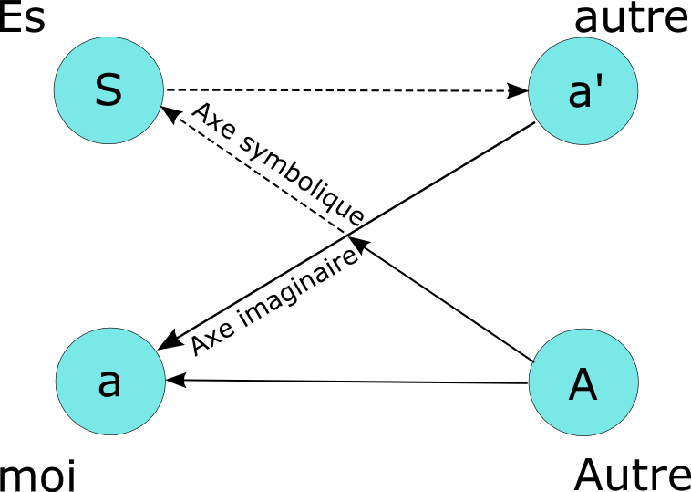 Schéma L historicair 22:05, 18 February 2006 (UTC)